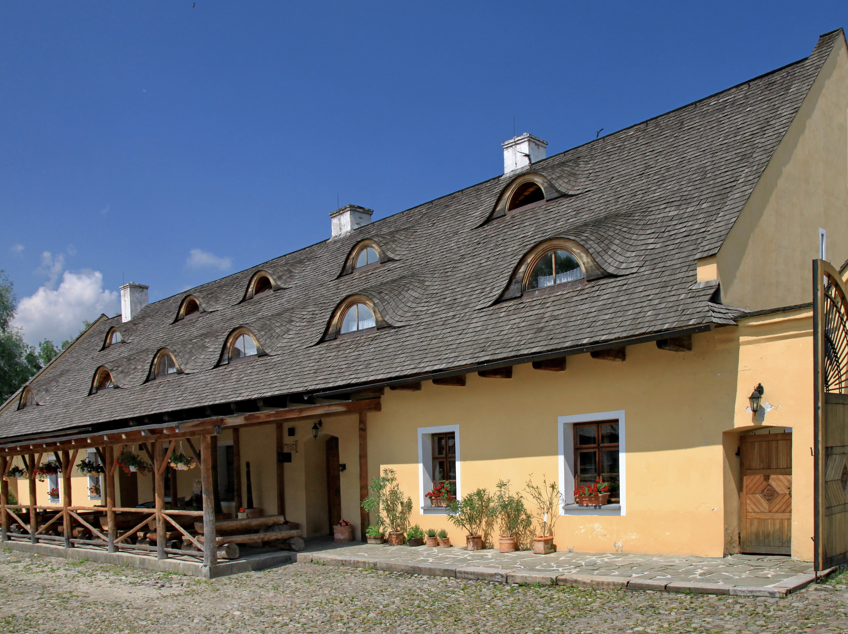 Manor house, Olšiny 59/17, Staré Město, Karviná. Moravian-Silesian Region, Czech Republic.